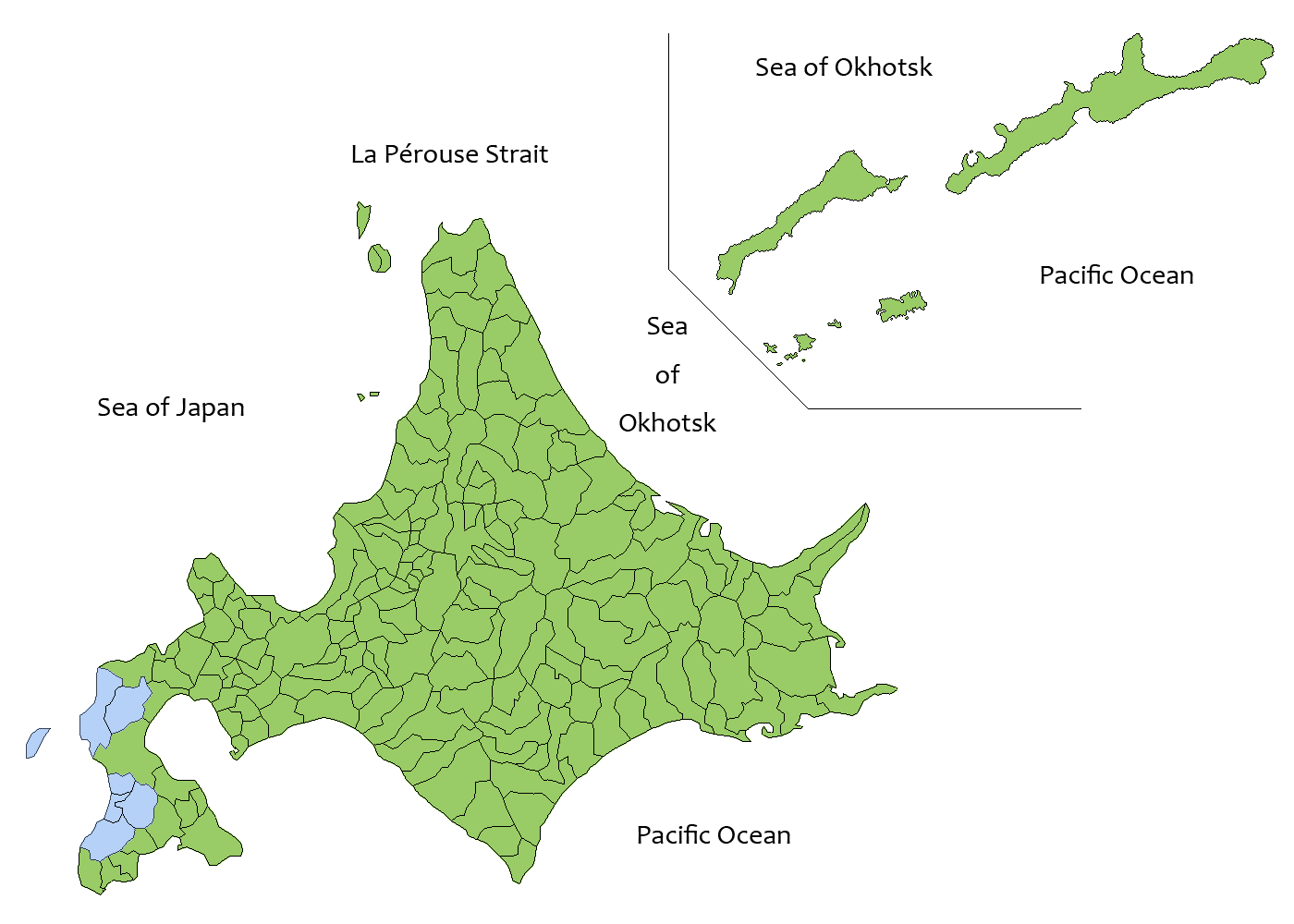 Map of Hiyama subprefecture in English